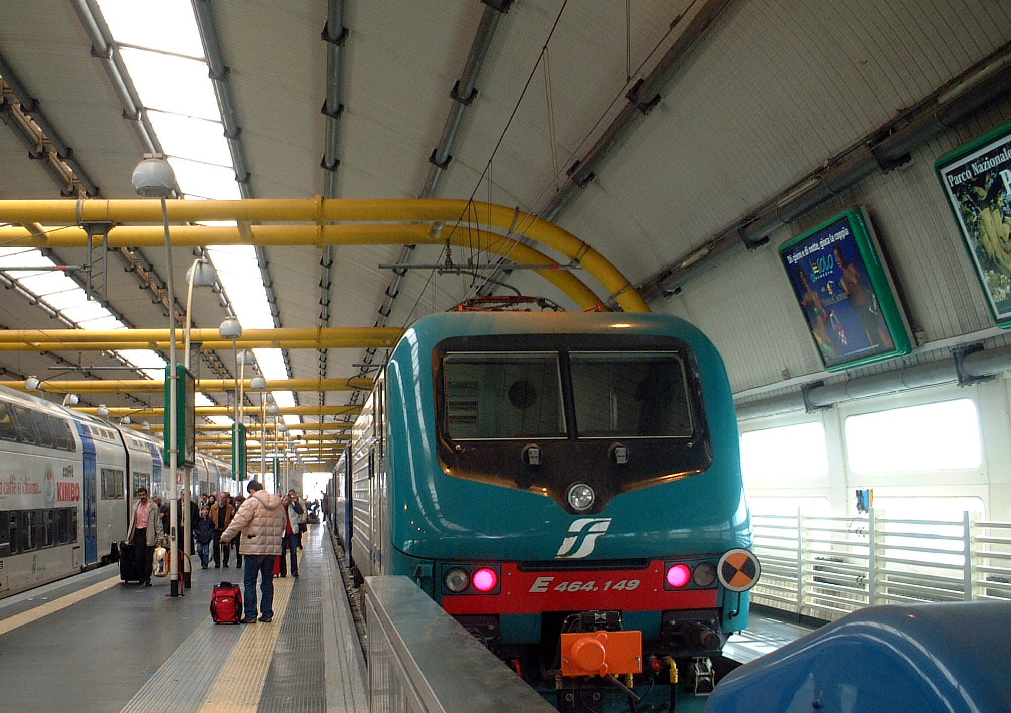 Railway Station at Fiumicino Airport, photo taken in Italy